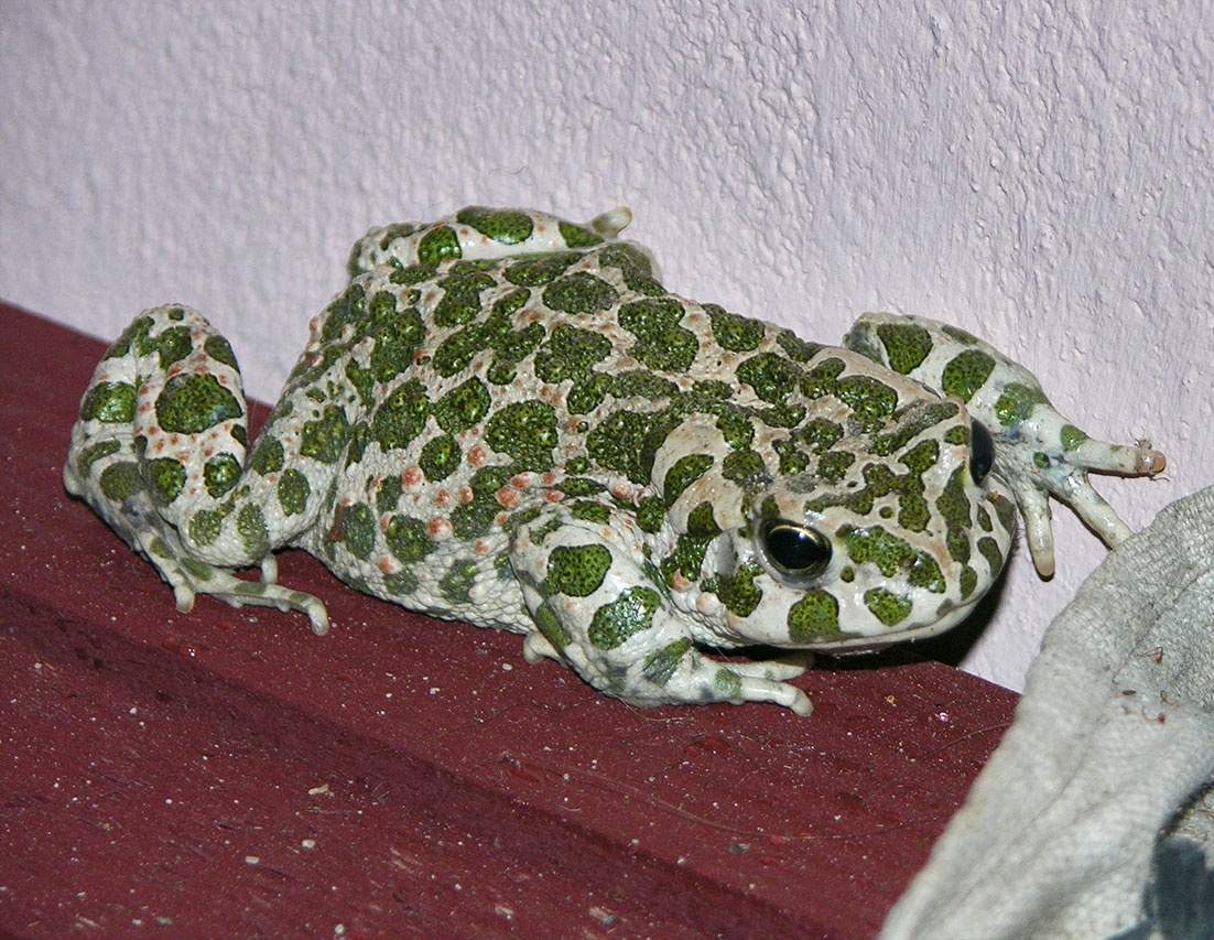 Bufo viridis (pl: Ropucha zielona), Maśluchy, Poland